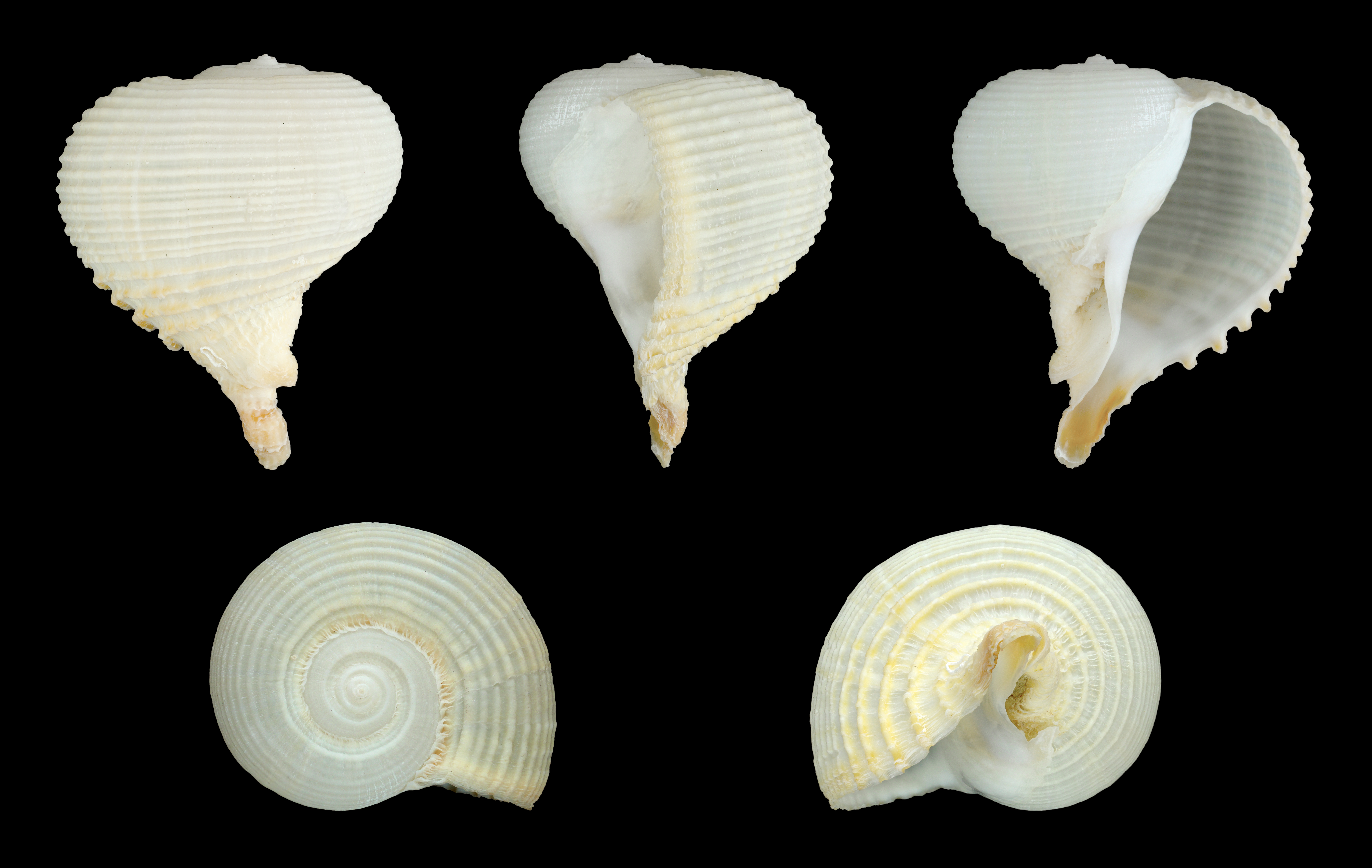 Bubble Turnip; Length 5.8 cm; Originating from the Philippines; Shell of own collection, therefore not geocoded. Dorsal, lateral (right side), ventral, back, and front view.